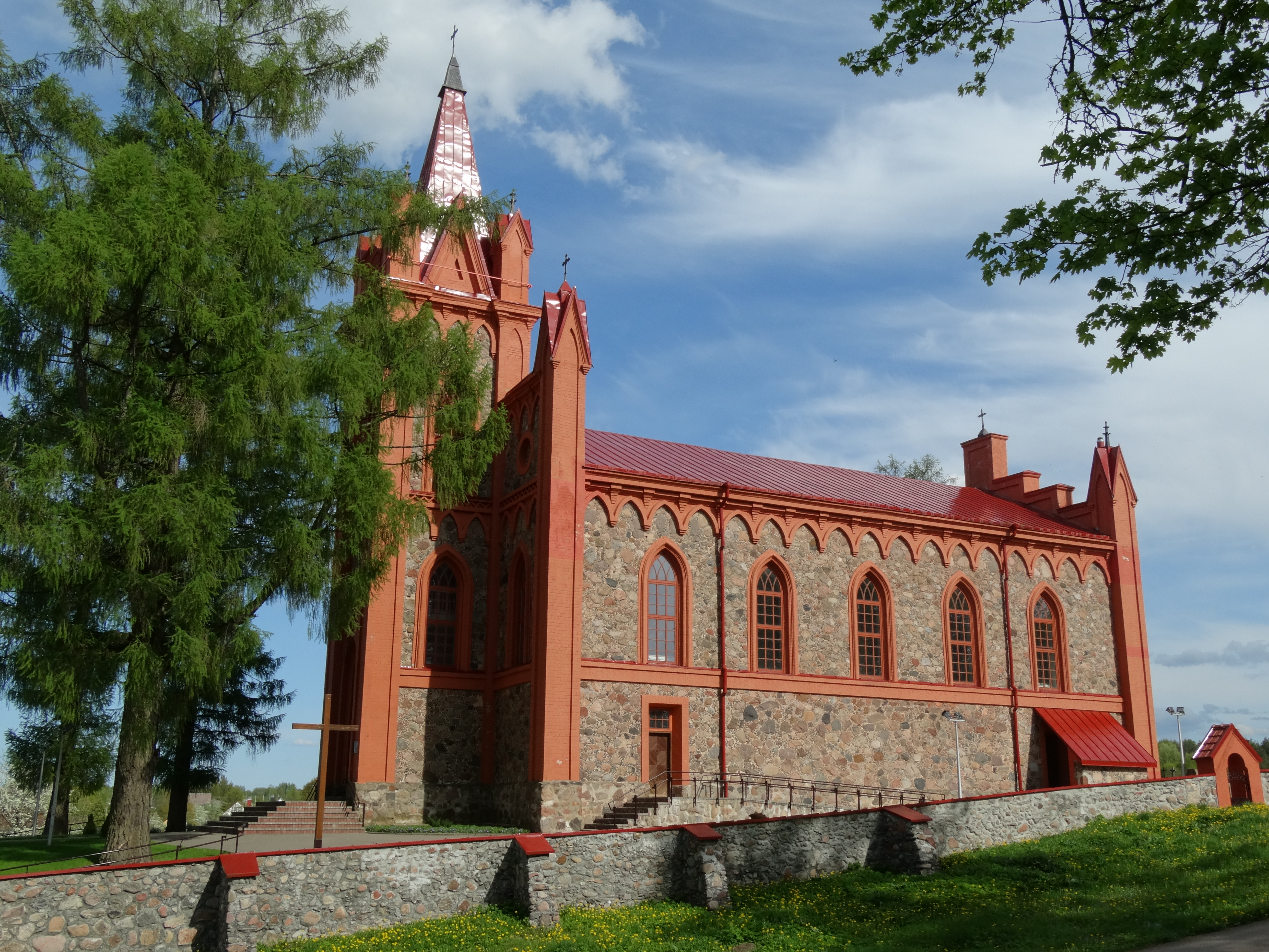 Saint Anne's Catholic Church, back side profile Dūkštos, Vilnius District, Lithuania